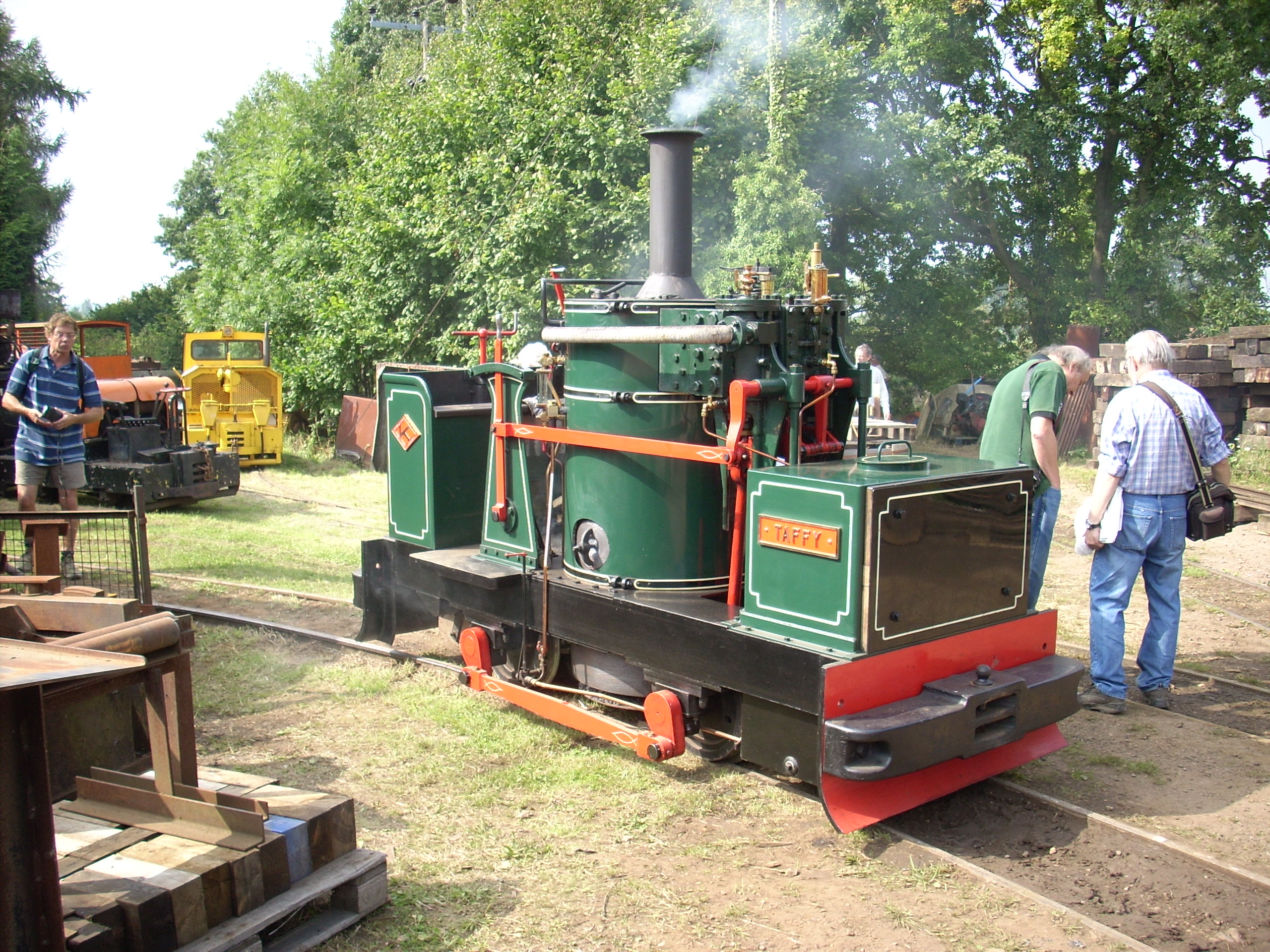 Locomotive "Taffy" built by Alan Keef Ltd